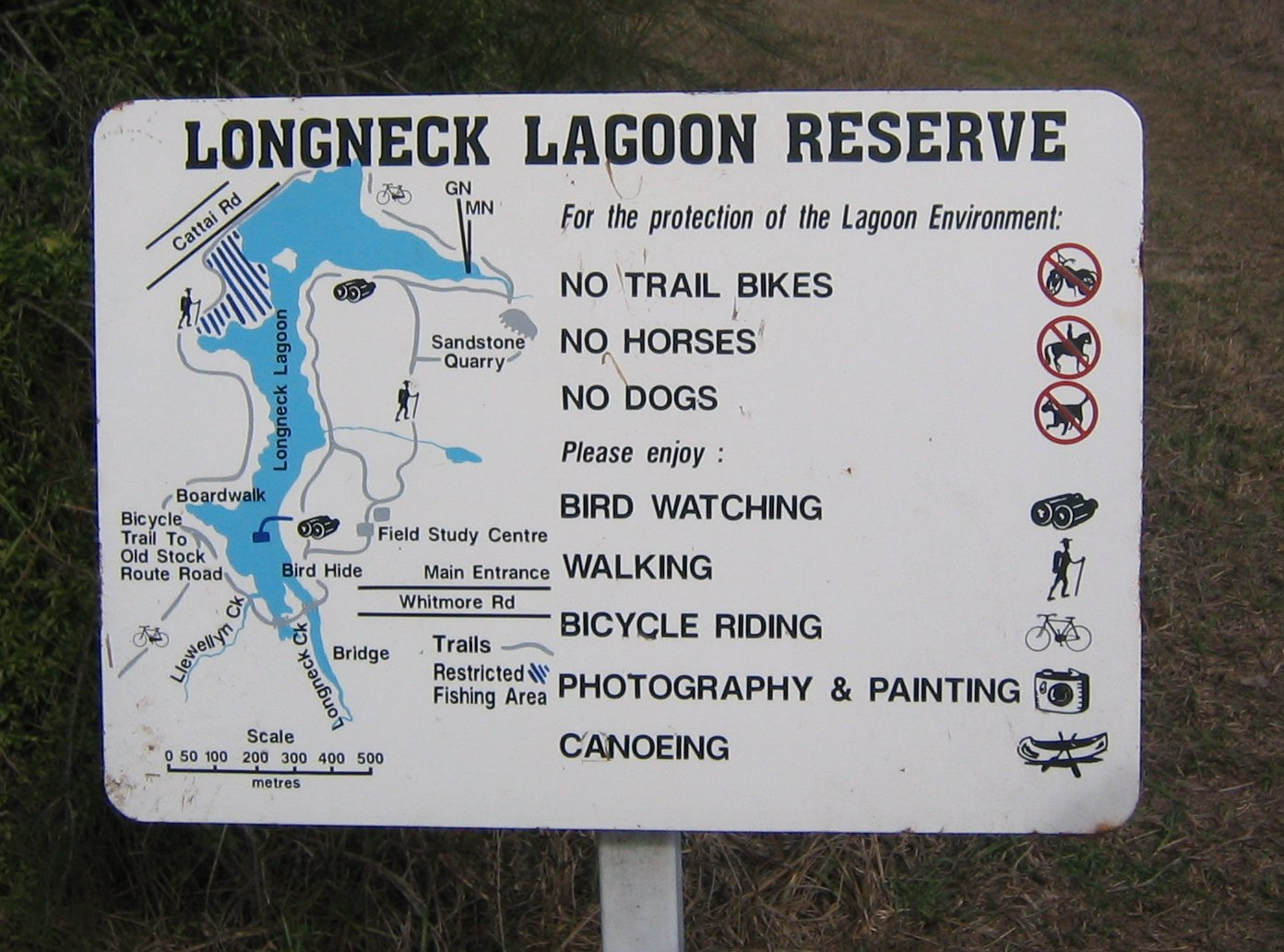 A sign on the track around Longneck Lagoon. Scheyville Nation Park, northwest of Sydney, Australia.